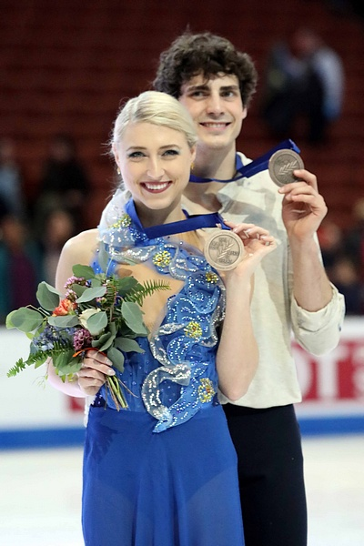 Piper Gilles and Paul Poirier at the 2019 Four Continents Championships - Awarding ceremony